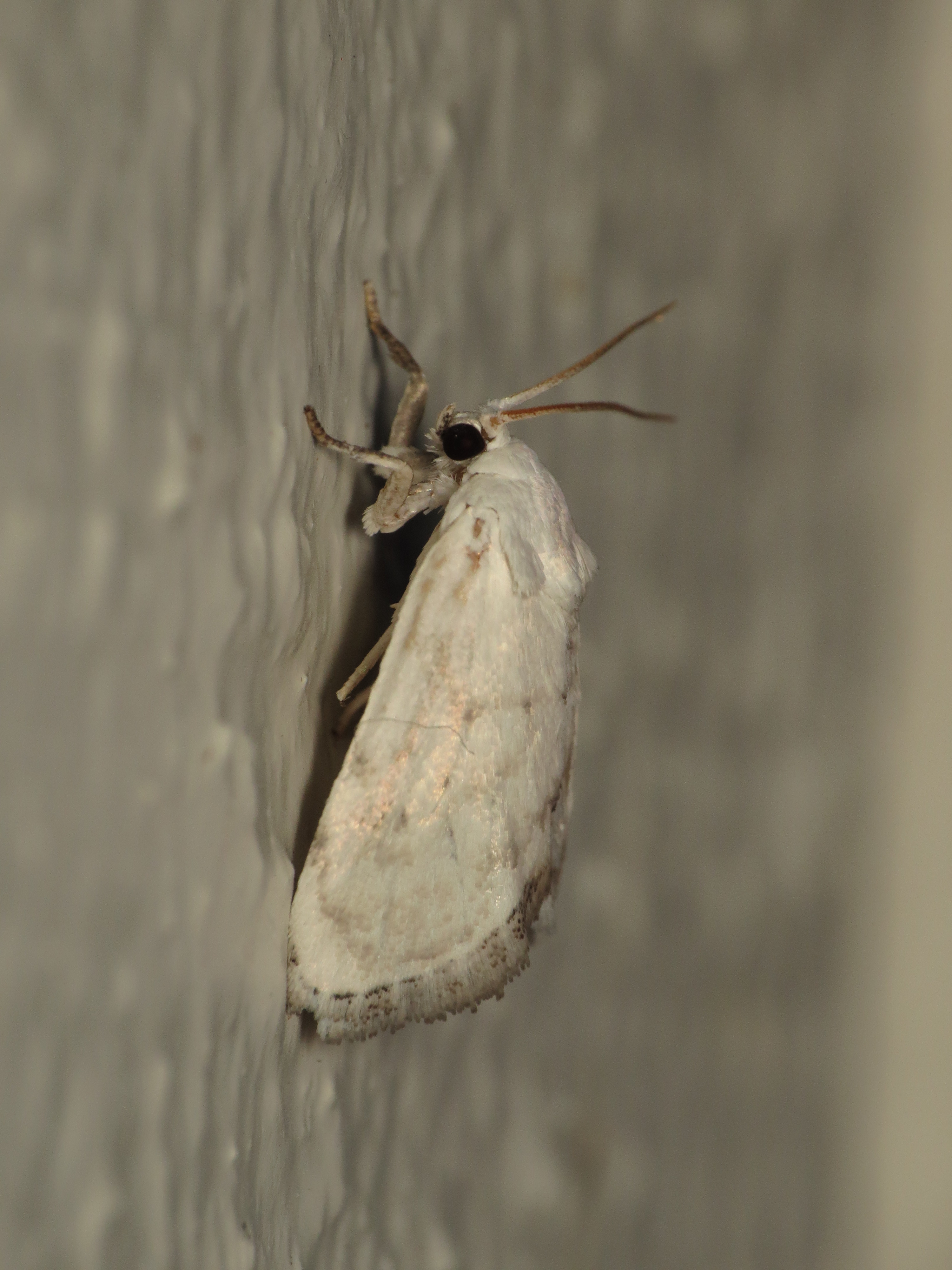 Niphopyralis chionesis Hampson, 1919, to actinic light, Clump Point, Mission Beach, QLD, 21/22 November 2014